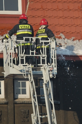 Clearing of snow by firemen